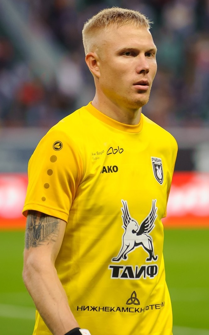 Yury Dyupin with FC Rubin Kazan in a game against FC Lokomotiv Moscow.